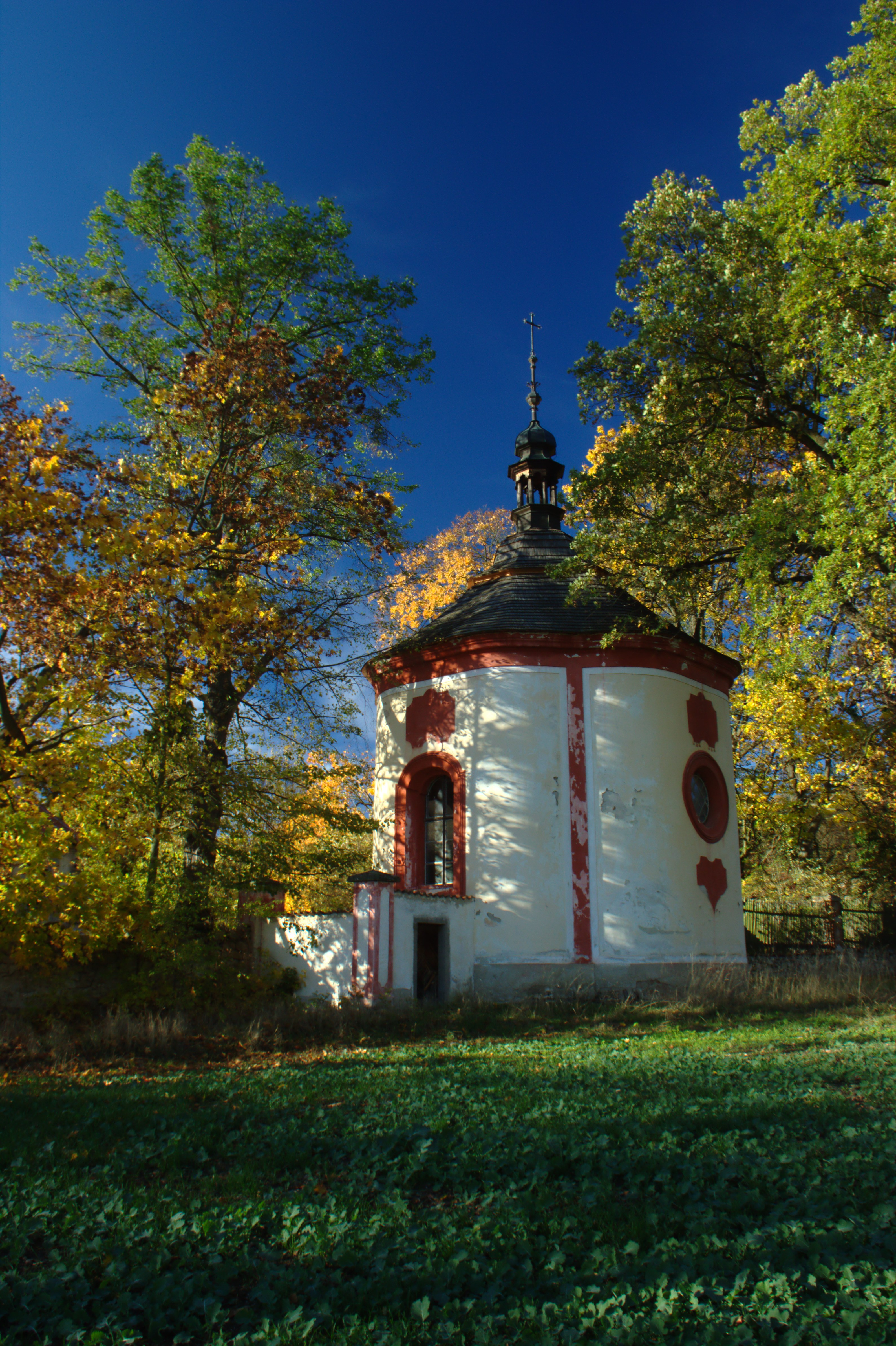 A chapel in Bolechovice, Central Bohemia